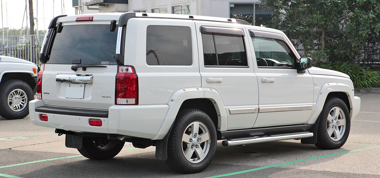 '08 Jeep Commander Japan spec